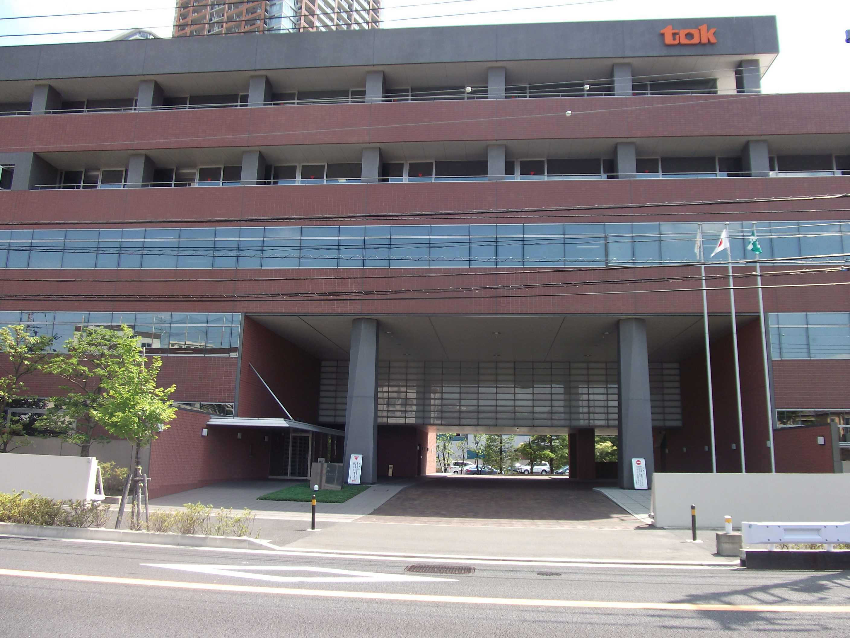 The headquarter of Tokyo Ohka Kogyo Co., Ltd.